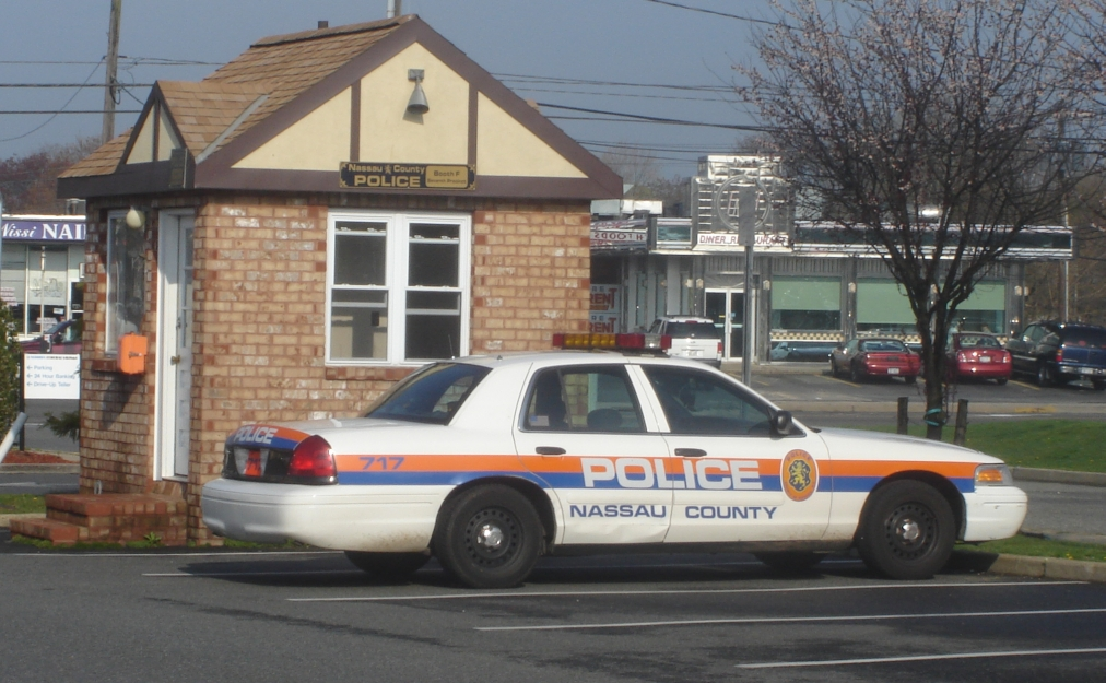 Nassau County Police Department marked patrol vehicle parked at Booth F in Wantagh.